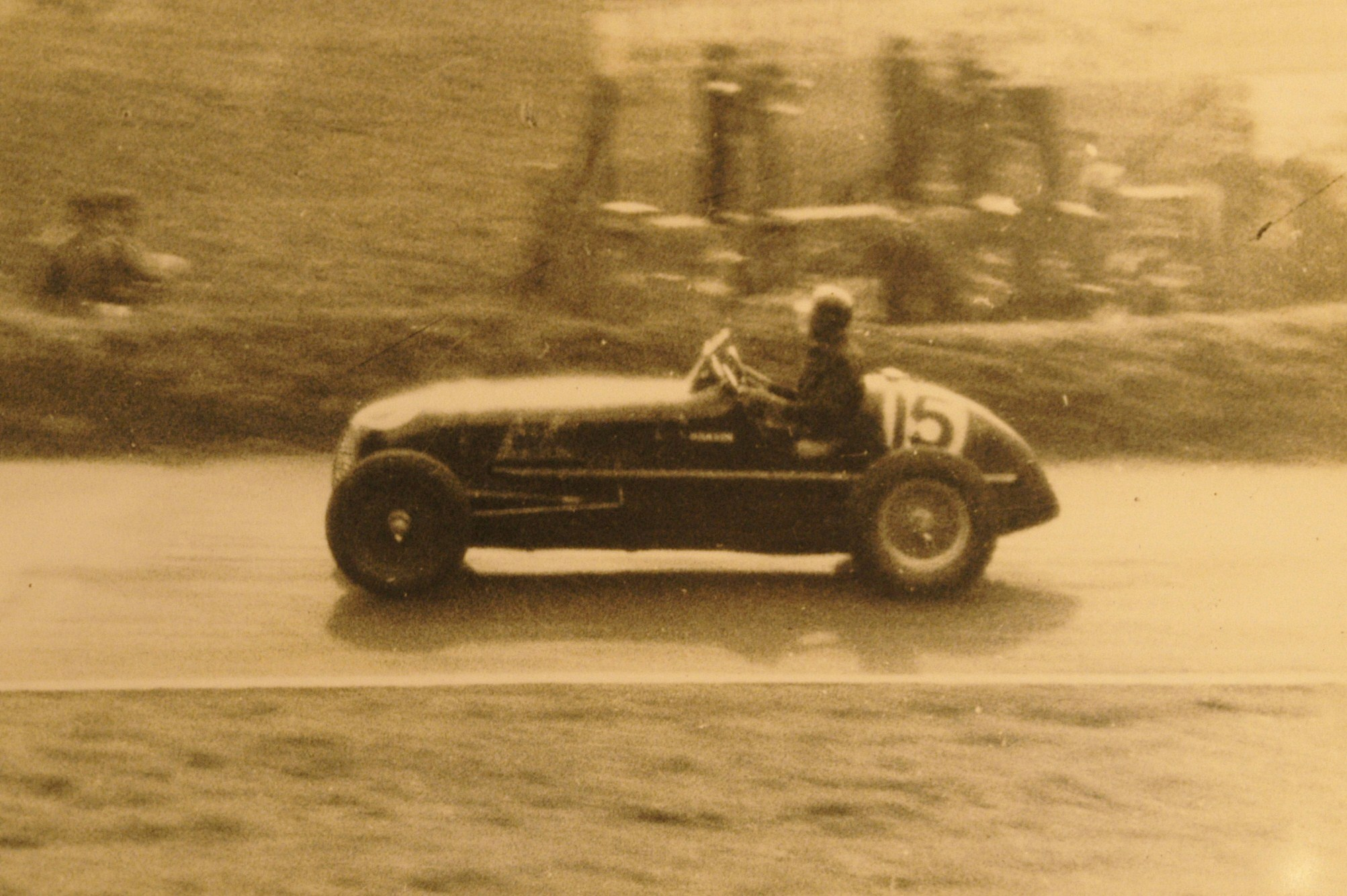 Doninington Grand _Prix 1937. Robin Hanson driving a Maserati.